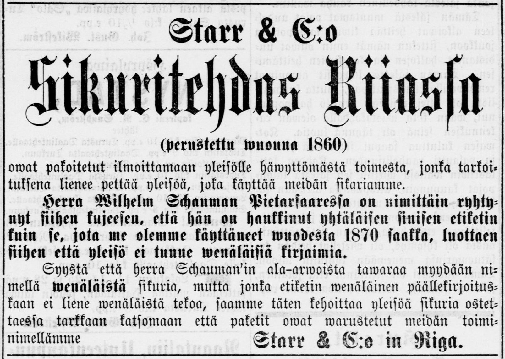 Advertisement for Chicory (Cichorium intybus) by Starr & C:o in Riga, warning the public about "inferior" products of their competitor, Wilhelm Schauman of Jakobstad. The advertisement appeared in multiple Finnish newspapers in 1886, in both Finnish and Swedish.